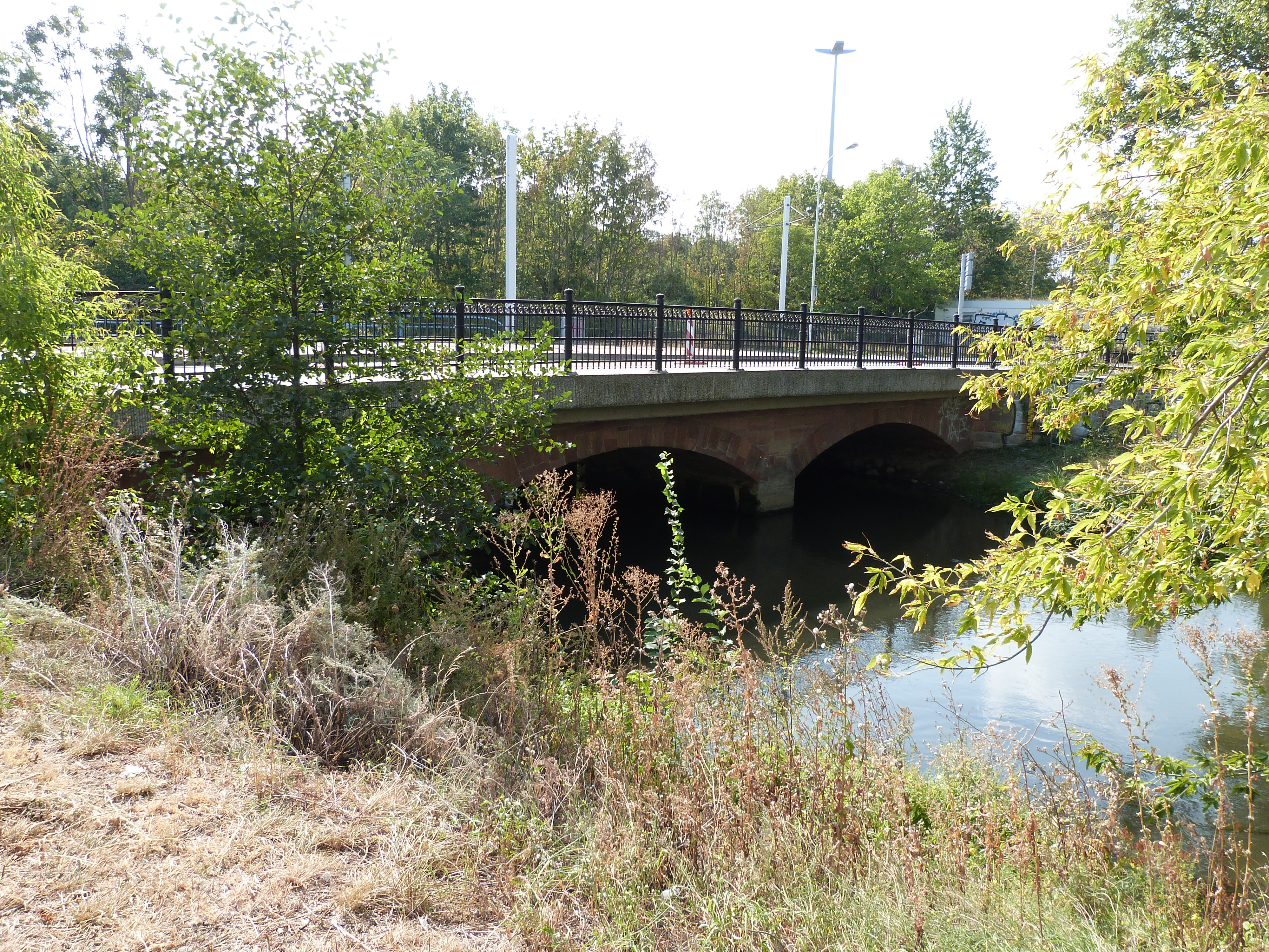 Bridge Schwarze Brücke (Black bridge) in Halle (Saale), Herrenstrasse, over the Mühlgraben, a branch of the Saale river